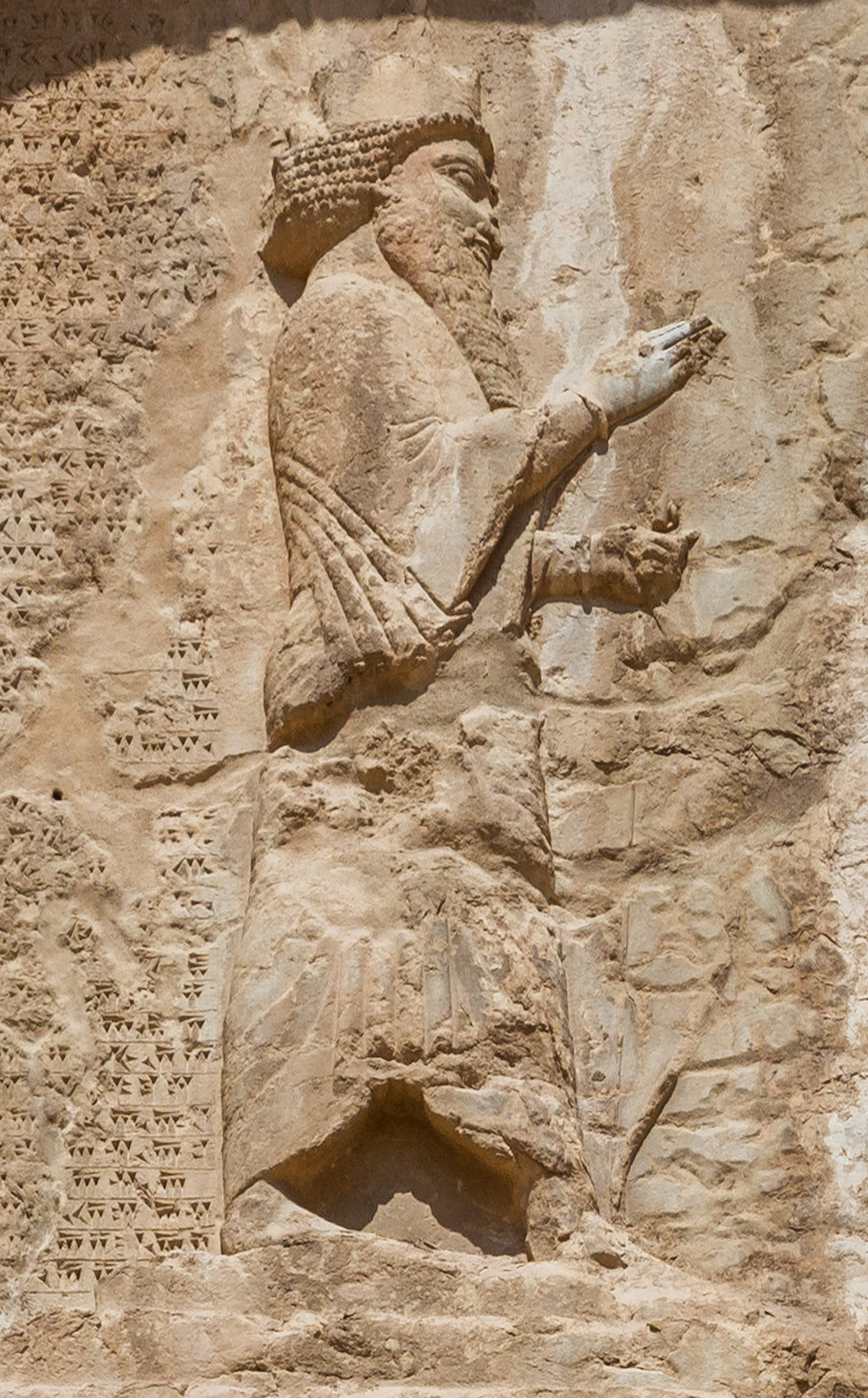 Tomb of Darius I Image of Darius I